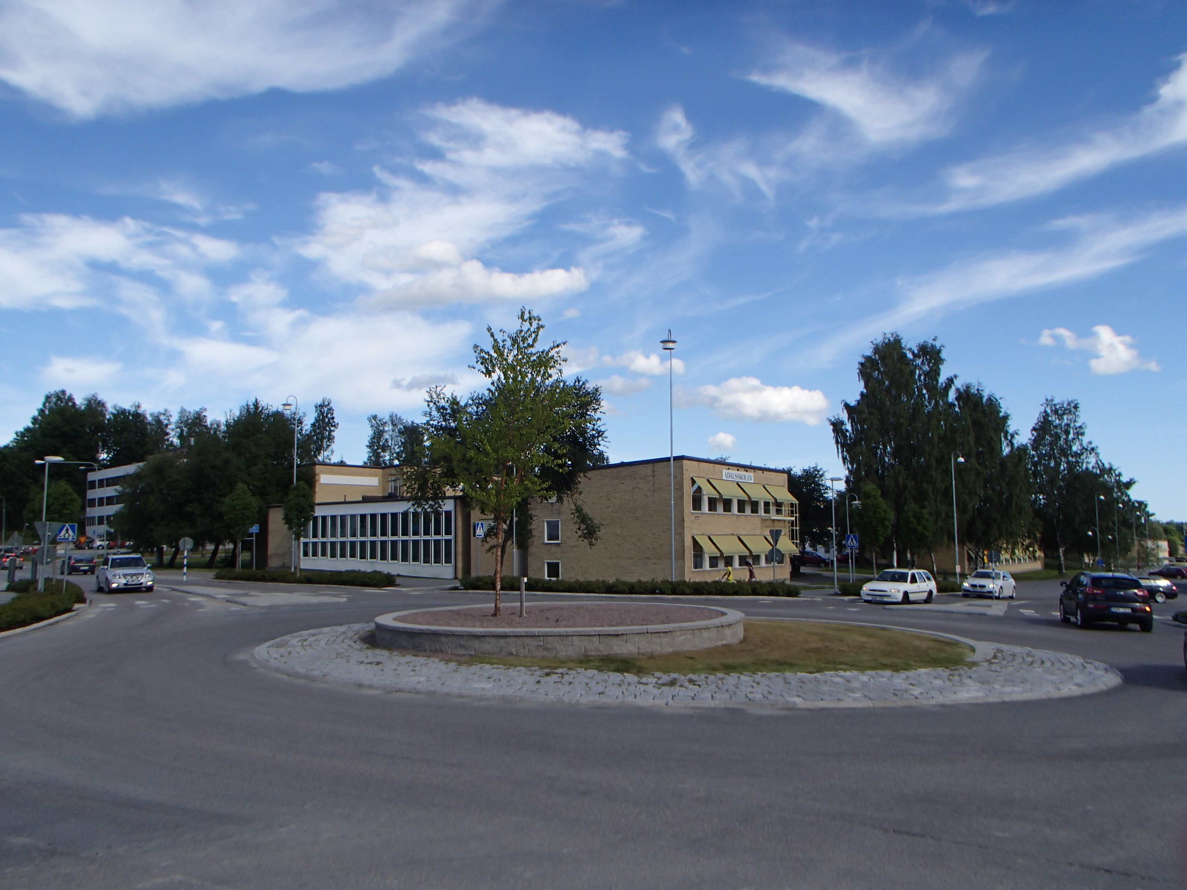 The gymnasium (school) "Ådalsskolan" in Kramfors, Sweden, viewed from west